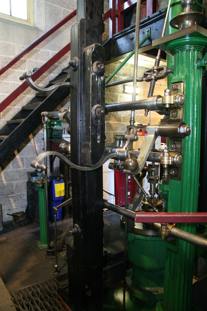 Leawood Pump